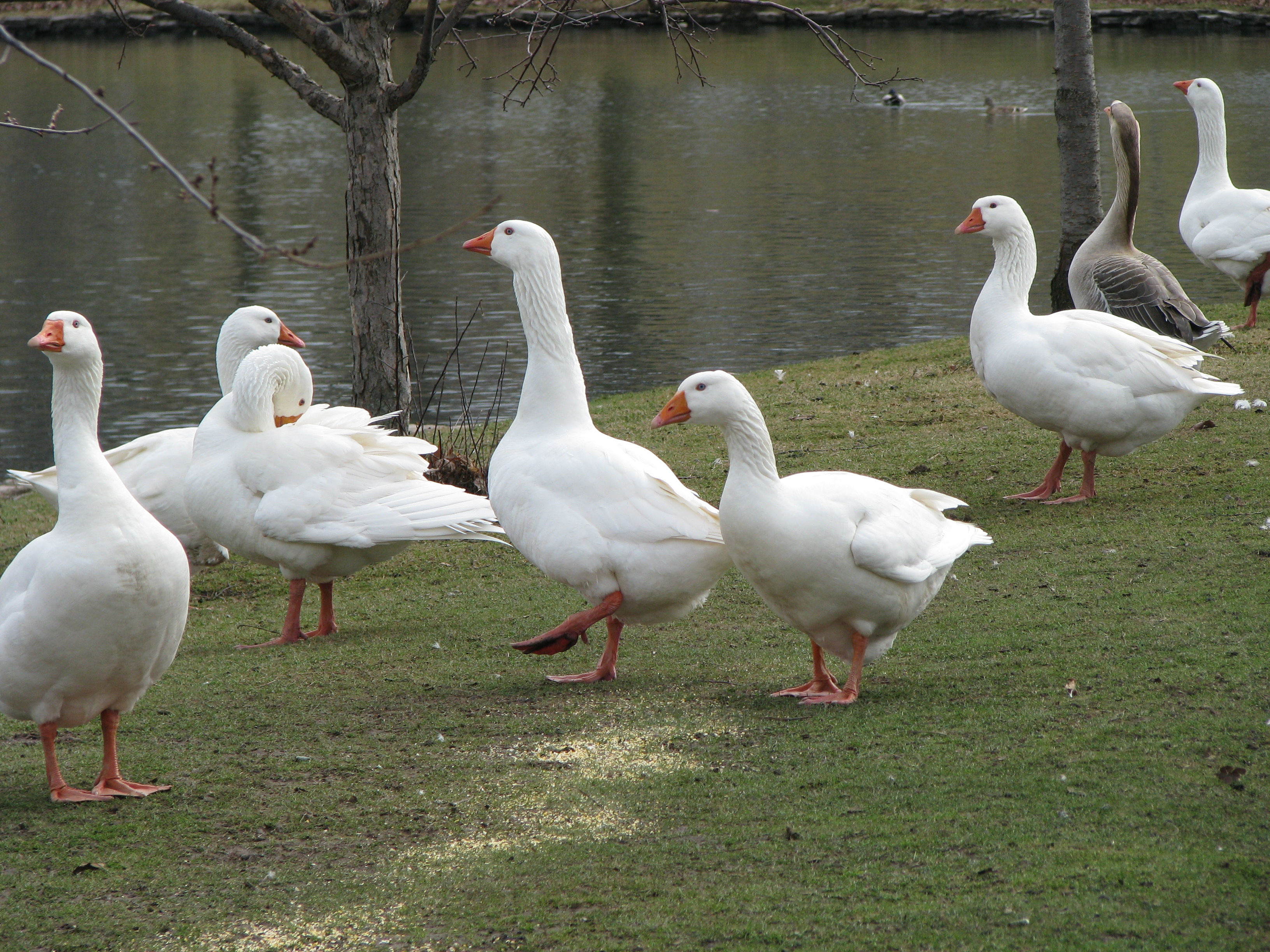 A flock of Emden geese, picture taken in Forest Lawn Cemetary.